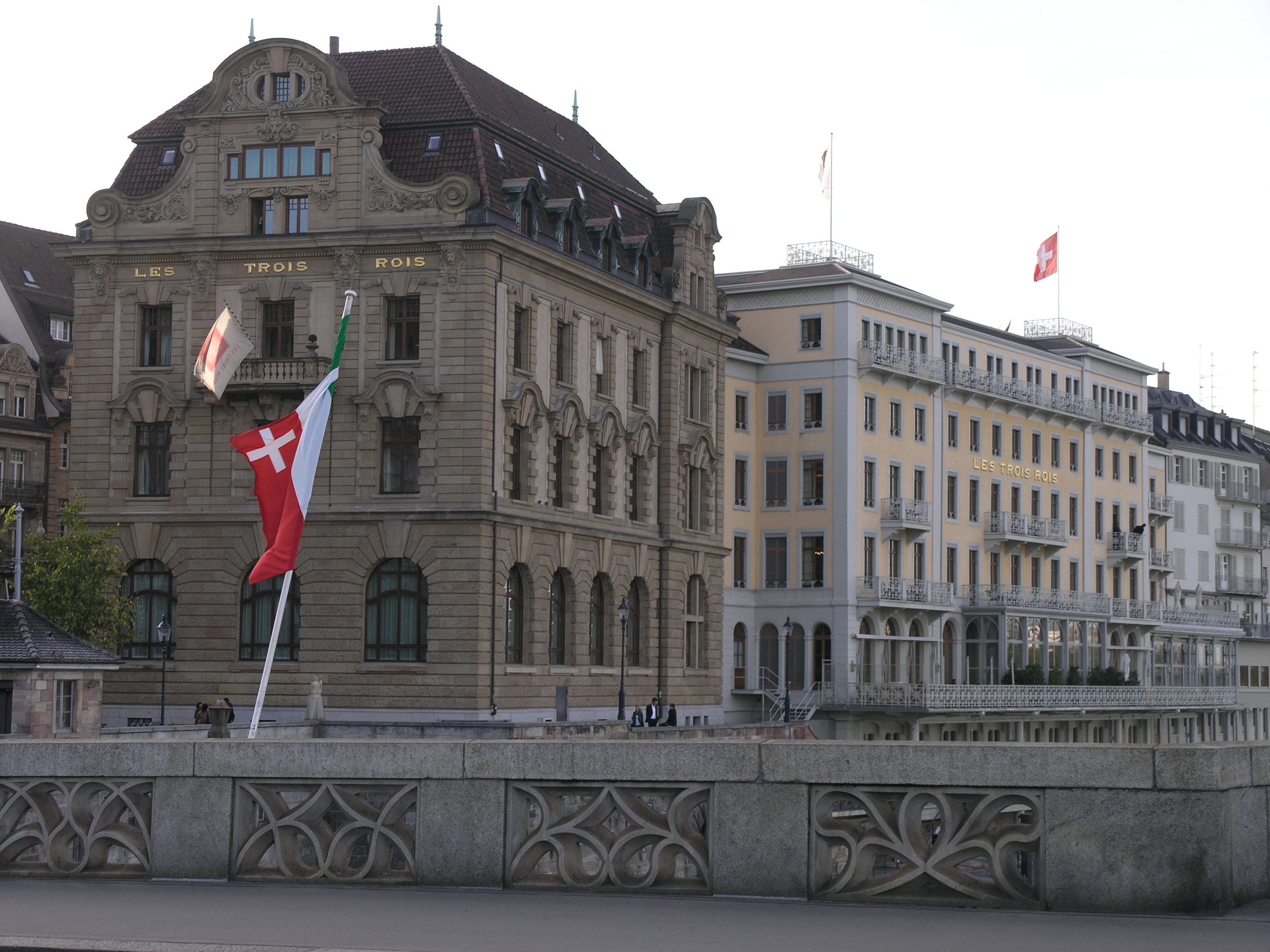 Grand Hotel Les Trois Rois